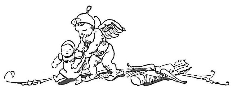 drawing by Wilhelm Busch